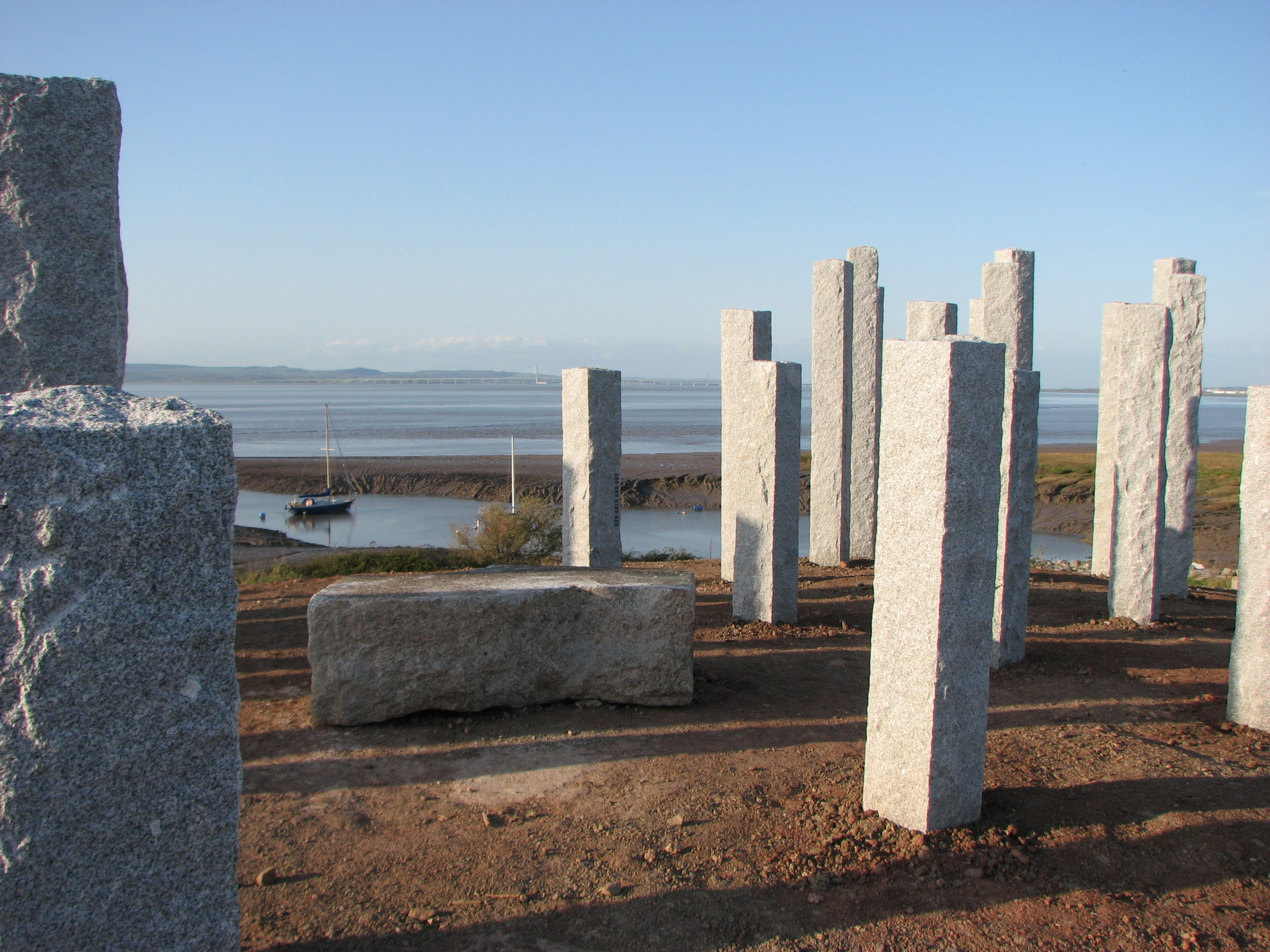 Sculpture Seafarers by Michael Dan Archer in Portishead/ U.K. May 08 (6)